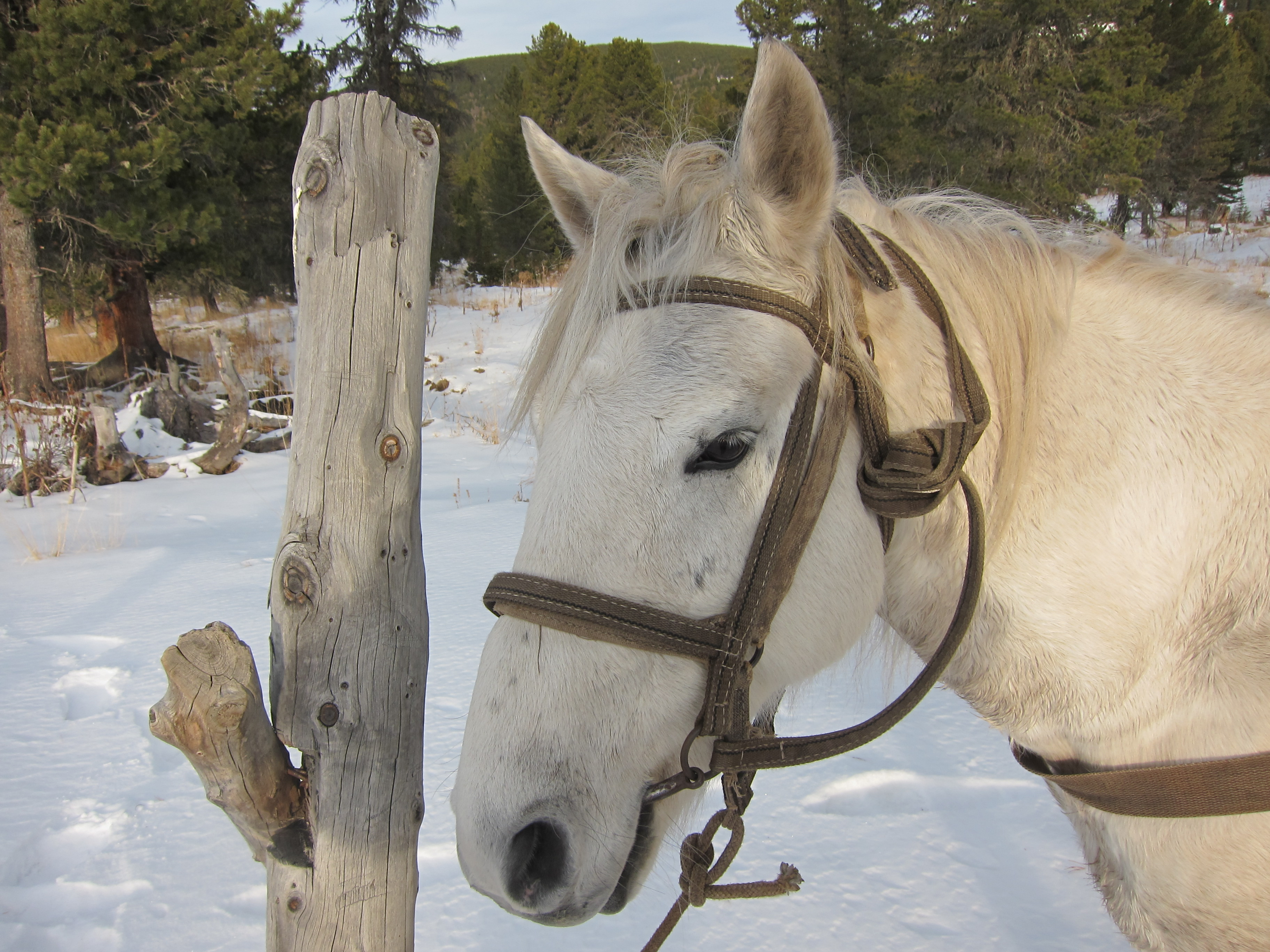 Horse in Chemalsky District of the Altai Republic